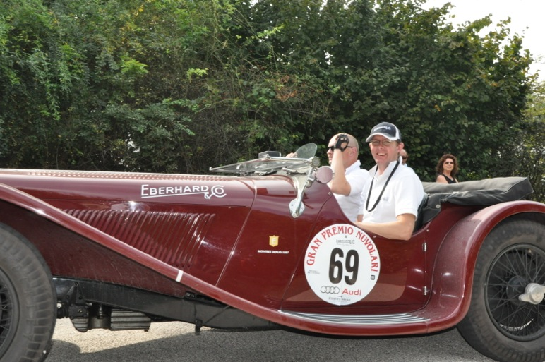 Gran Premio Nuvolari best non italian Team 2014 Müller/Manetsch in a Jaguar SS100